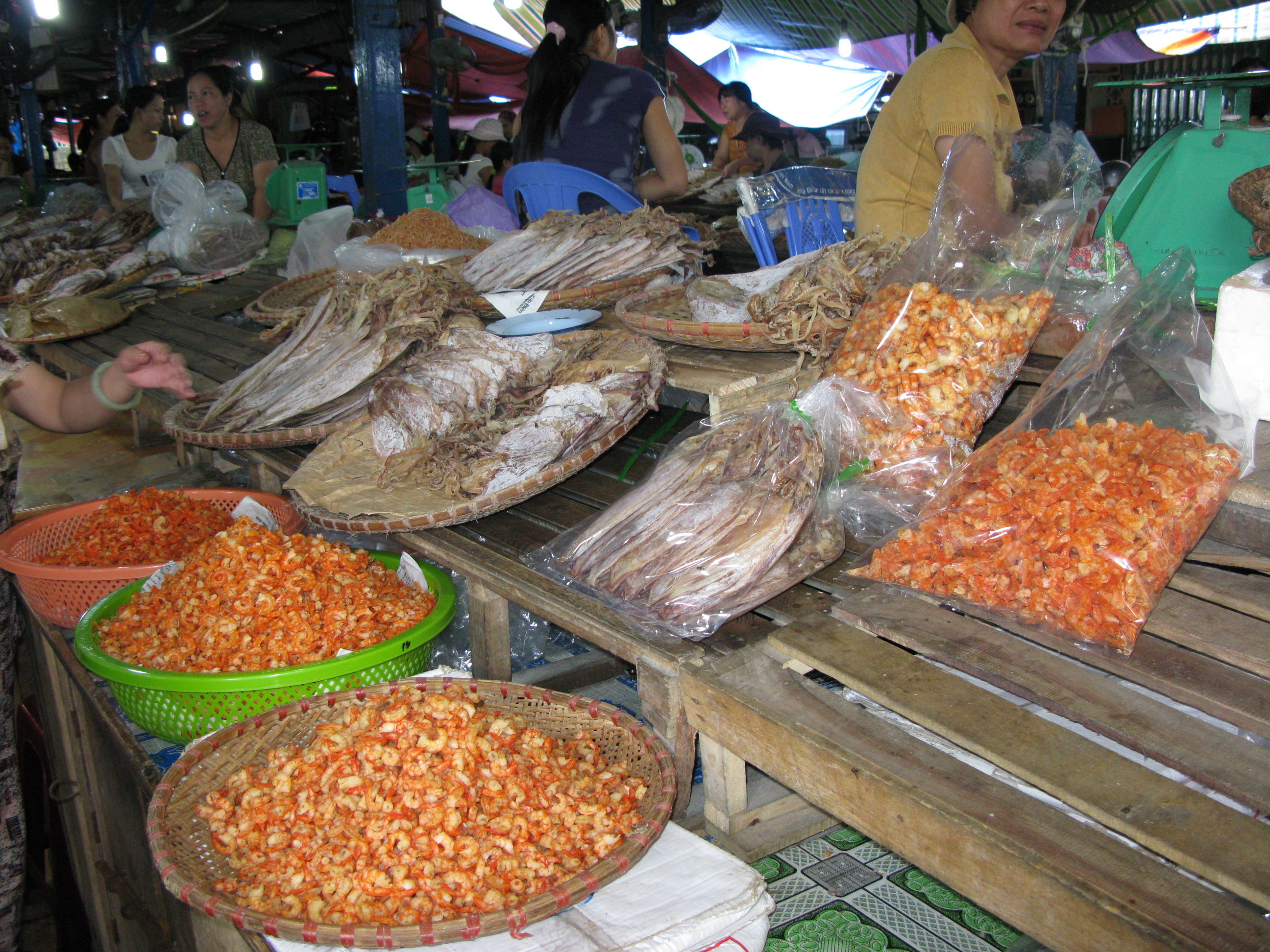 Dried shrimps and squids, Cat Ba market.